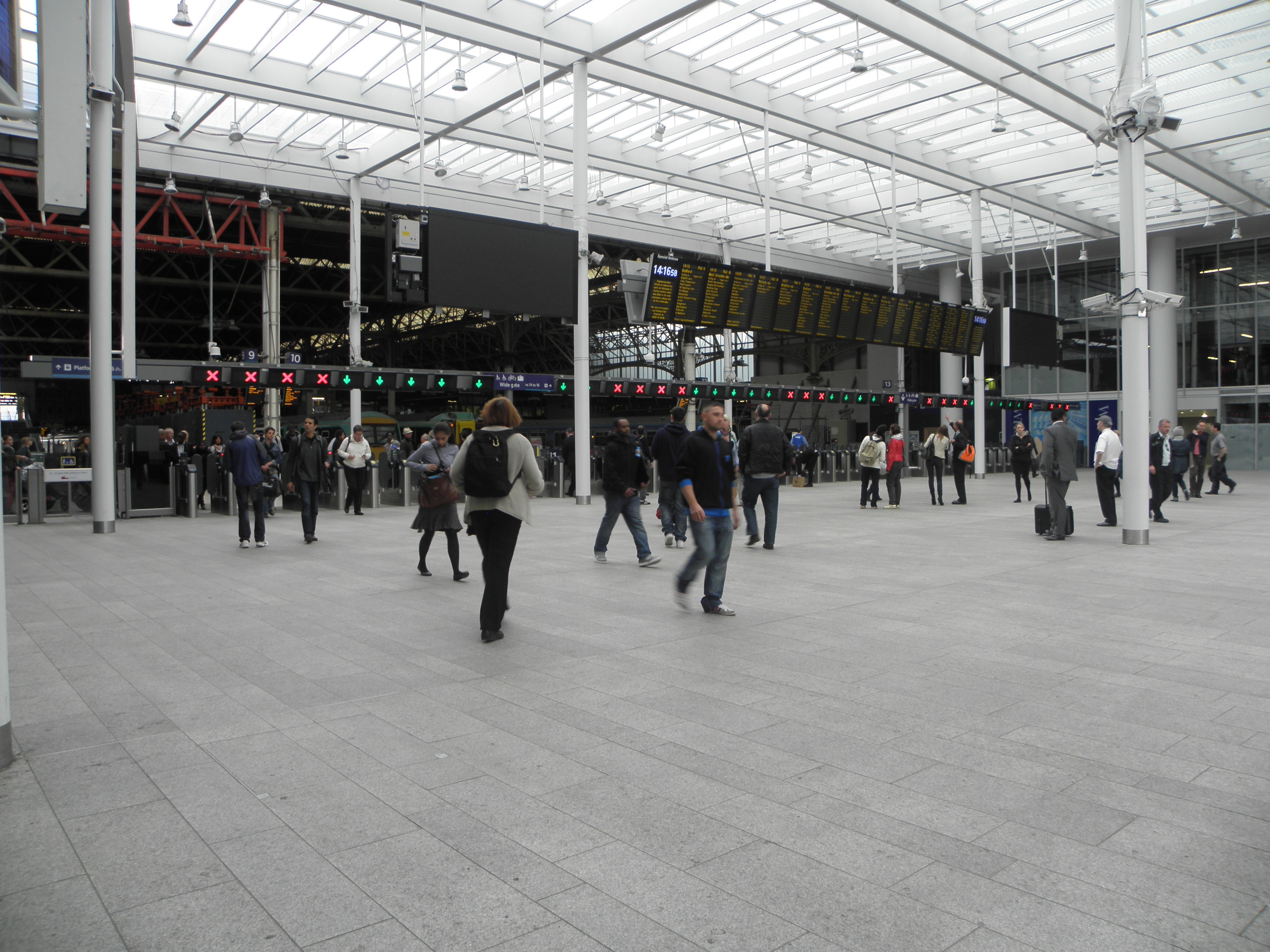 London Bridge mainline station concourse in 2012 after refurbishment